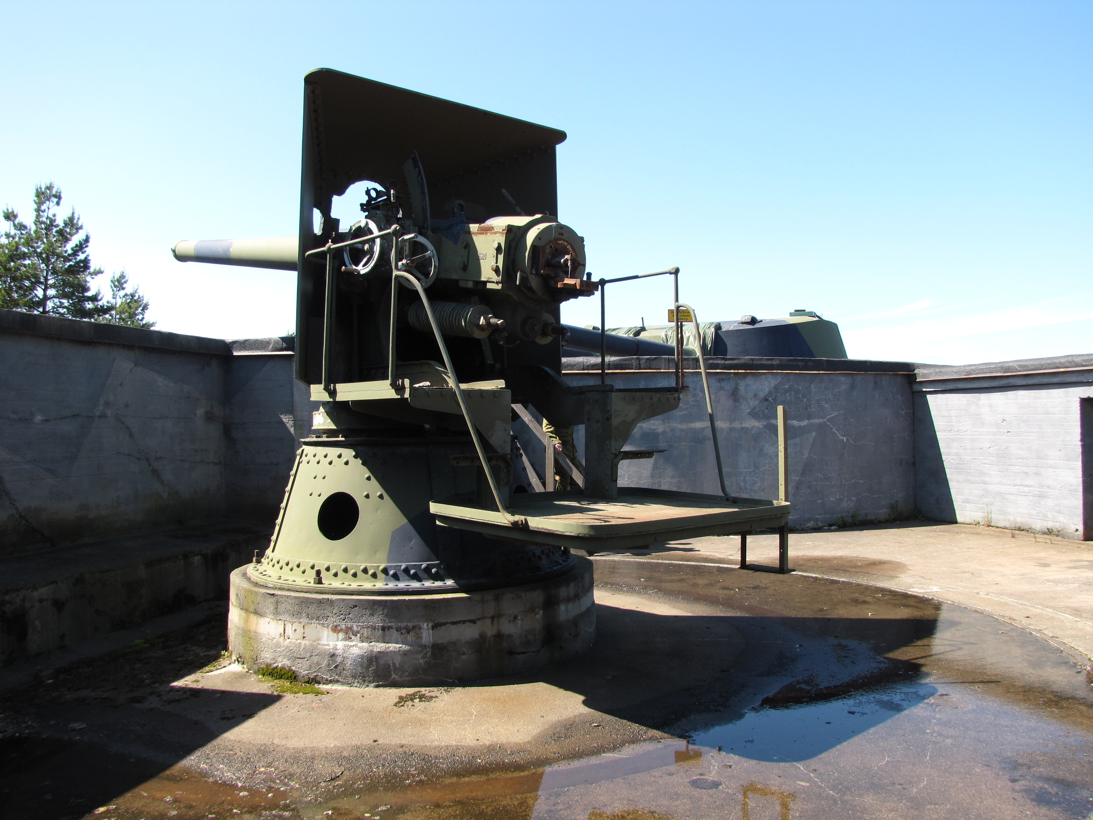 152 mm 45 calibre Canet model 1892 coastal gun in Kuivasaari island. This gun has been restored to original condition, though the fortified position was originally intended for a 254mm (10inch) Durlacher gun. Manufactured by Obukhov state plant in 1896, serial number 30.